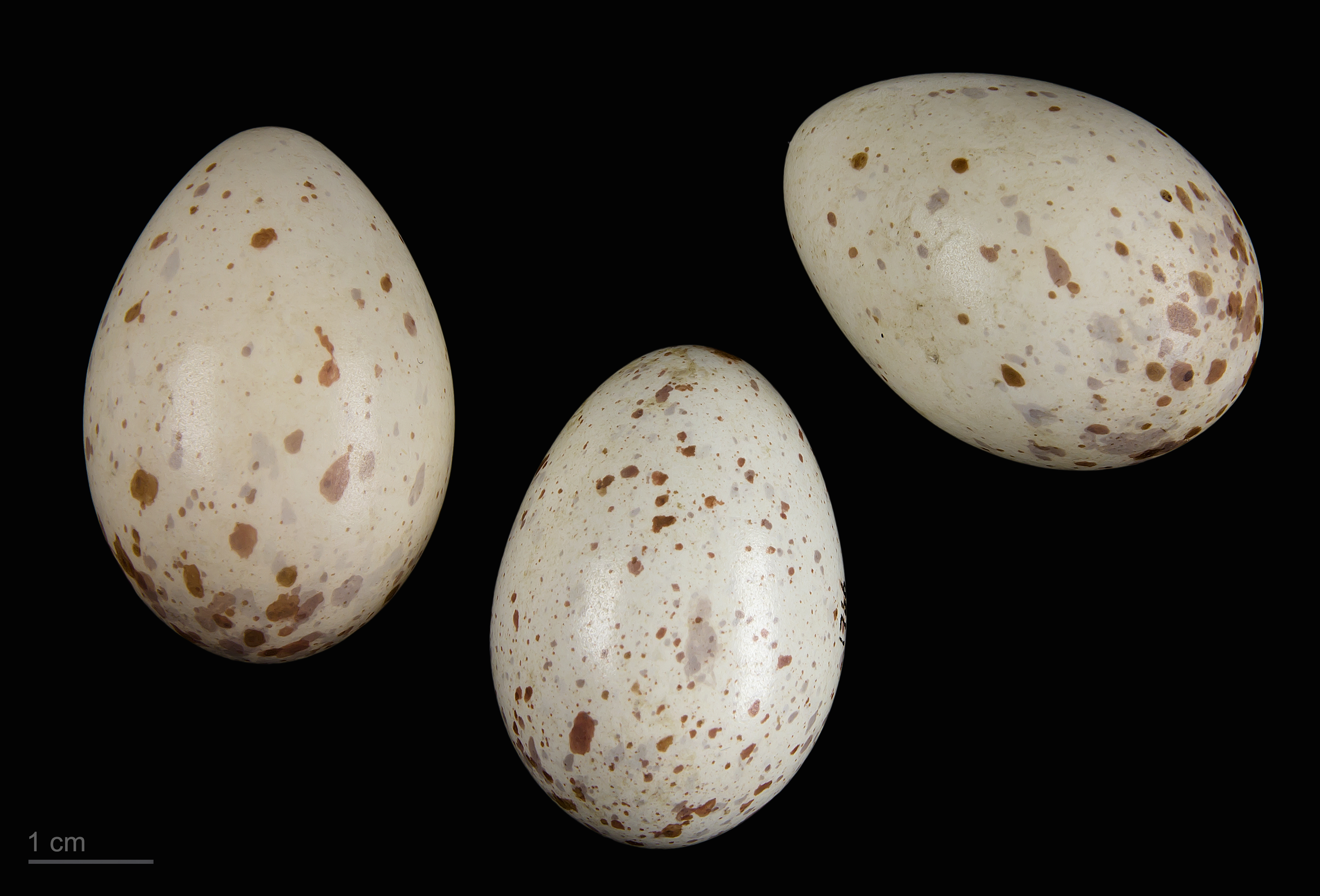 Eggs of corn crake Three specimens of the same spawn ; collection of Jacques Perrin de Brichambaut.